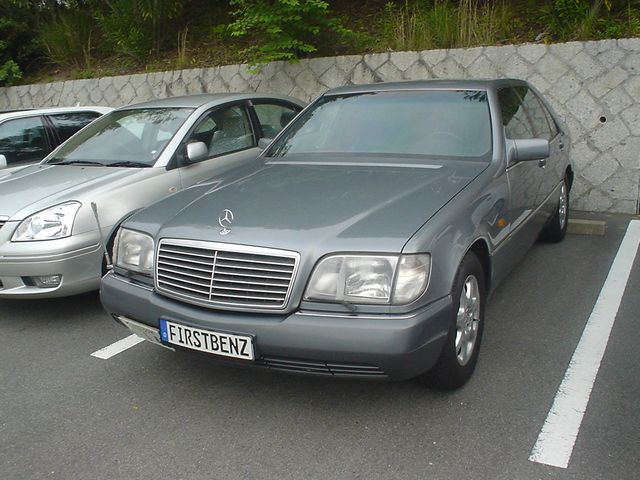 1995-1999 Mercedes-Benz W140